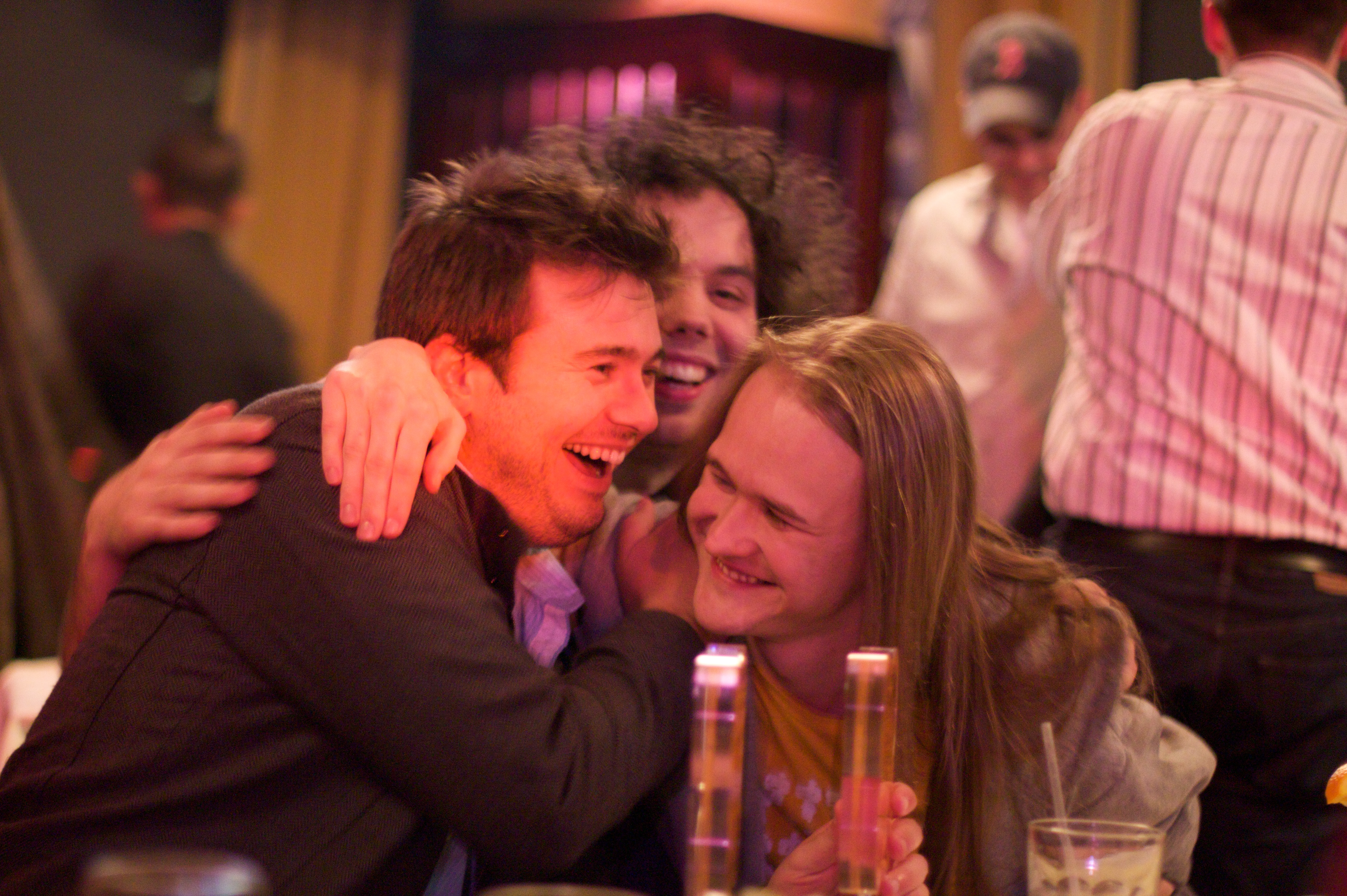 Seamus McNally winners hugging each other